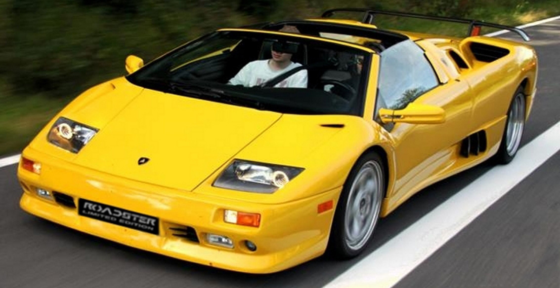 1999 Lamborghini Diablo Roadster